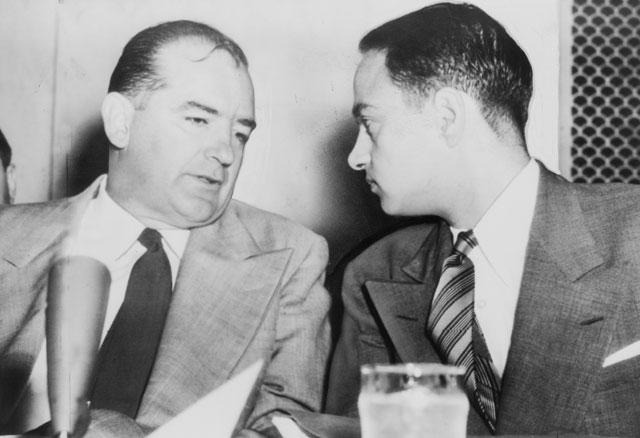 Sen. Joseph McCarthy chats with his attorney Roy Cohn during Senate Subcommittee hearings on the McCarthy-Army dispute